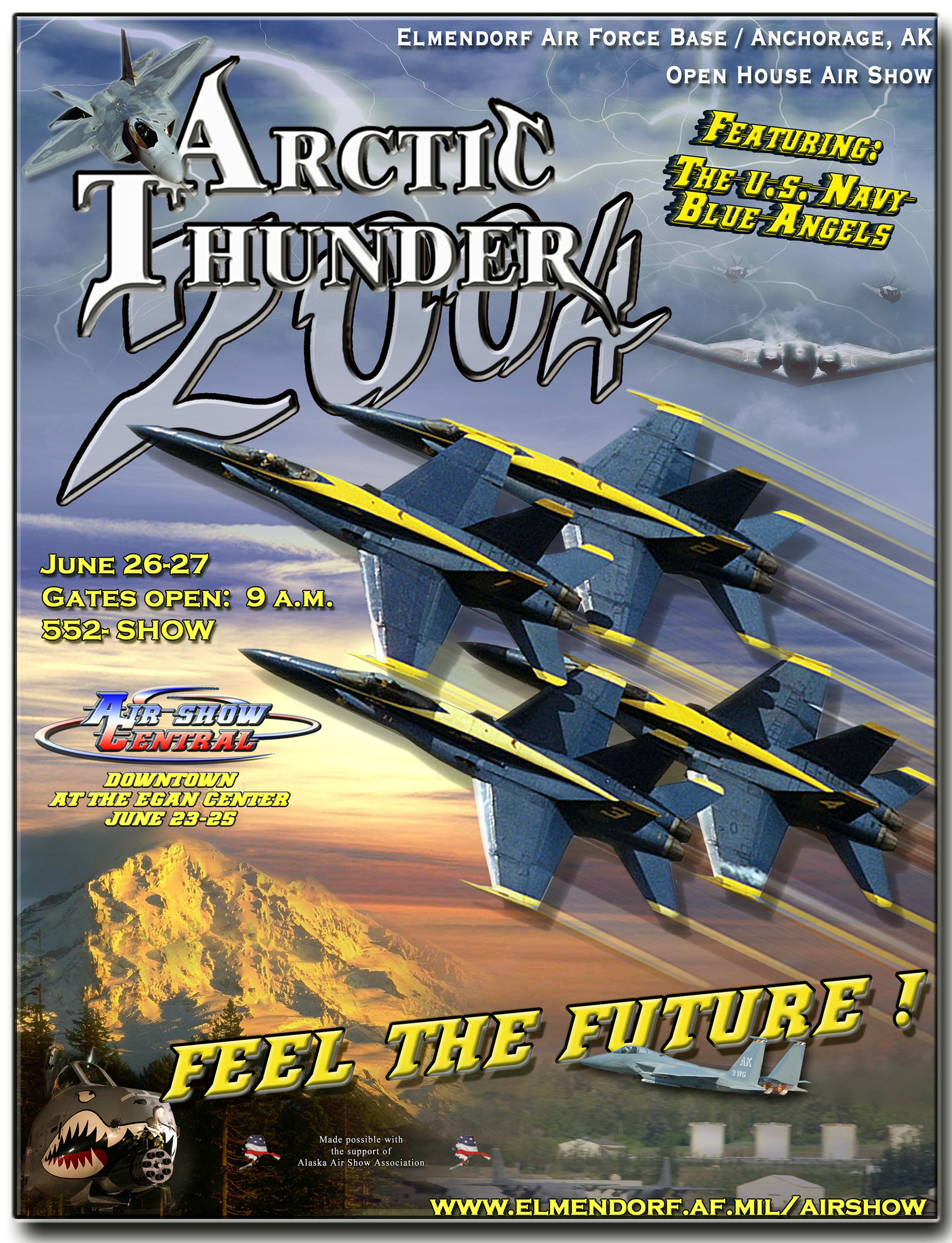 The Arctic Thunder Air Show 2004 poster, featured nationally in Flyers Magazine, designed at Elmendorf Air Force Base, Alaska, on Feb. 18, 2005. (U.S. Air Force Graphic Illustration by Senior Airman Miguel Lara III)